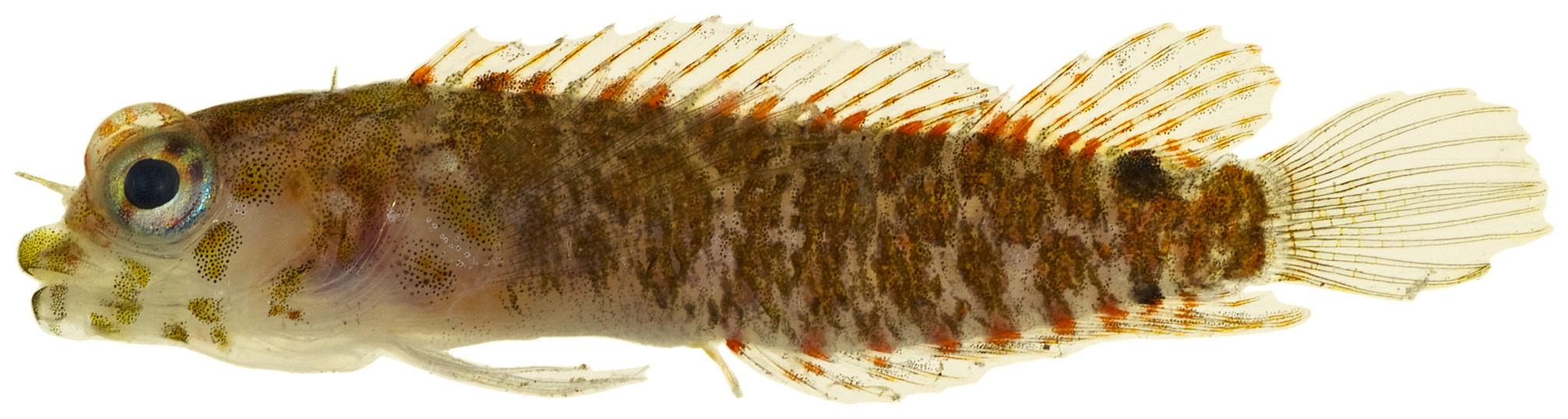 Starksia atlantica Longley, 1934—smootheye blenny, 15.1 mm SL, adult male. Photo by JT Williams.